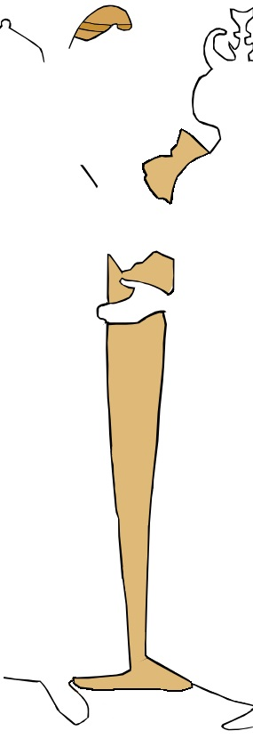 Copy of the mural of the six kings, Qusayr Amra, depicting king Roderic. It combines the copy of Alois from the early 20th century with recent restorations (World Monuments Fund).